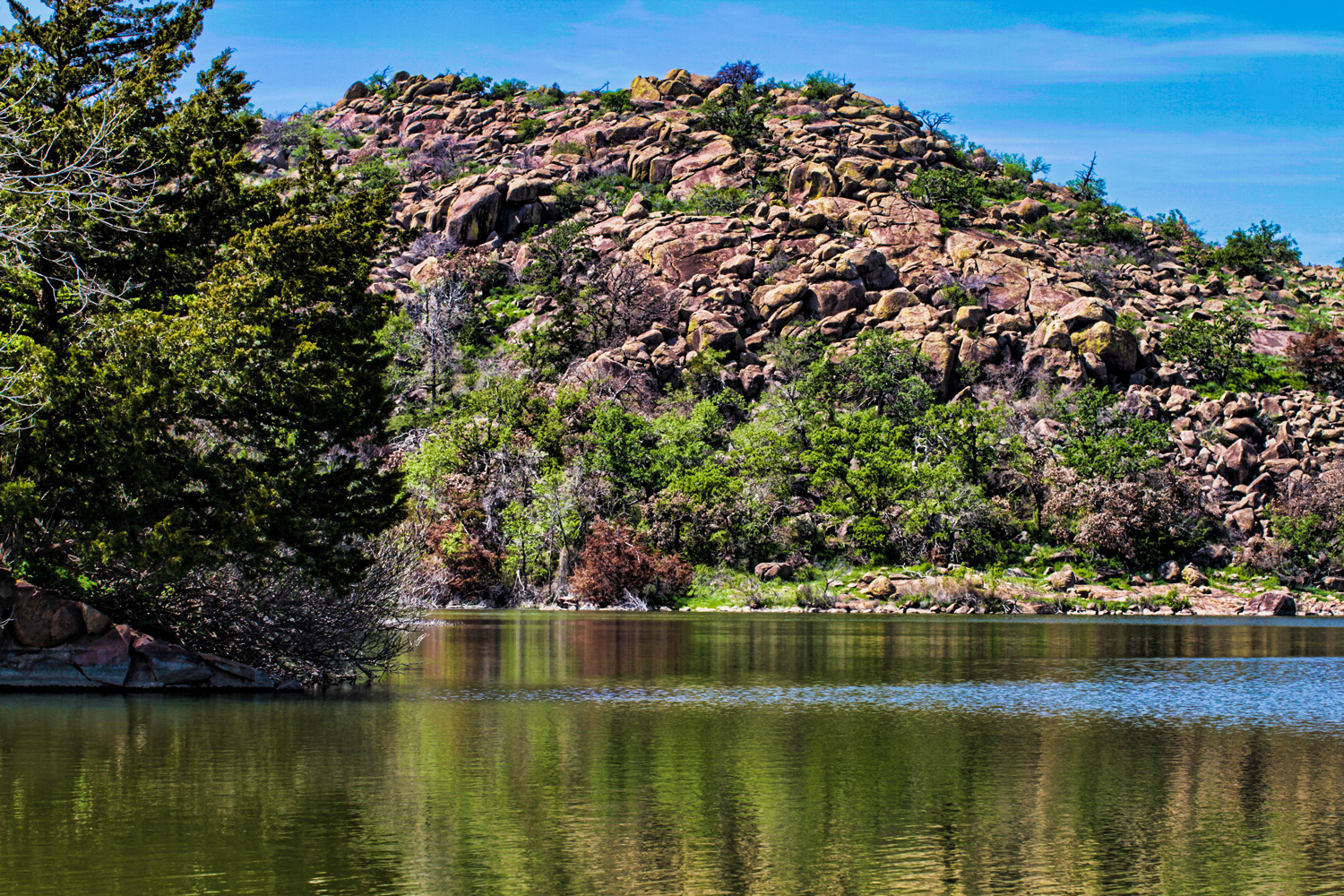 Snyder Lake below the dam of Tom Steed Resevoir Great Plains State Park SW Oklahoma